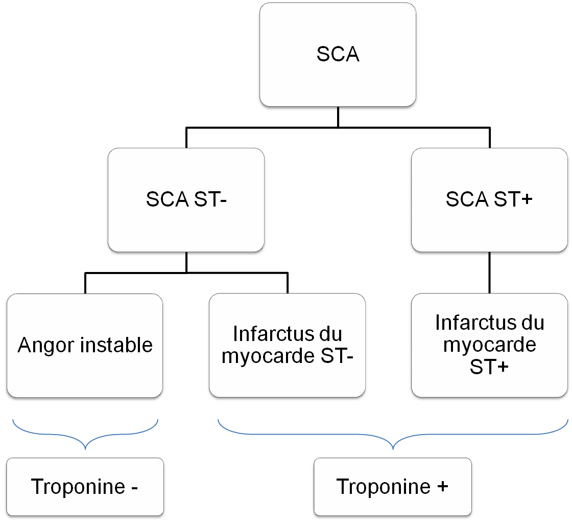 Arbre diagnostic des syndromes coronariens aigus en fonction des résultats de l'électrocardiogramme et de la troponinémie.